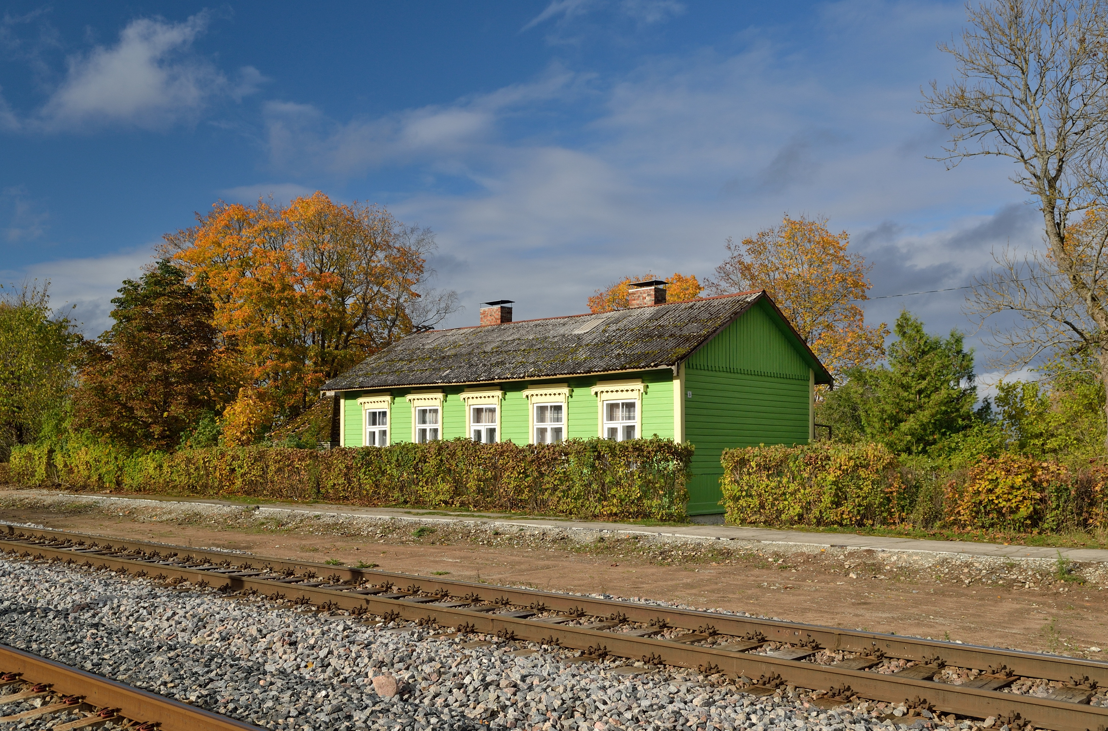 Lehtse station house